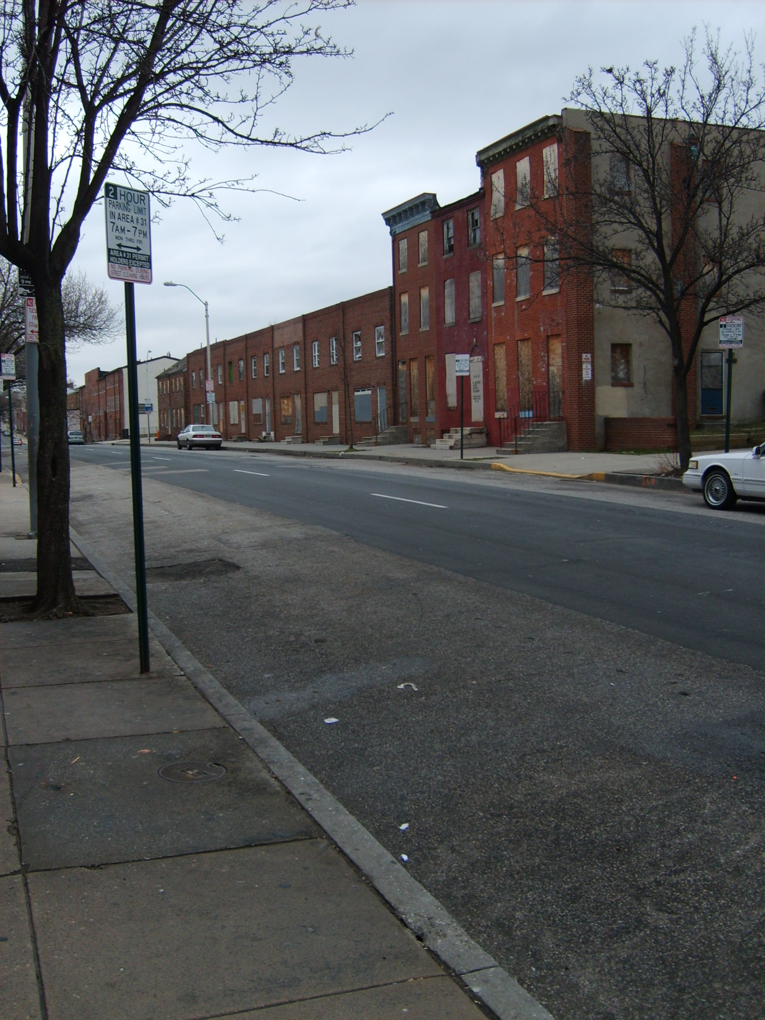 West Baltimore